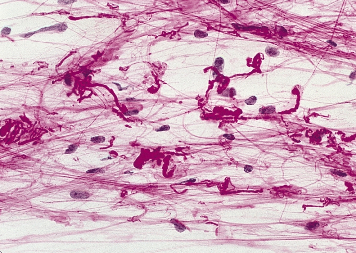 CNS: PILOCYTIC ASTROCYTOMA Intracytoplasmic Rosenthal fibers are prominent in some pilocytic neoplasms.